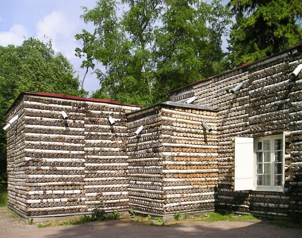 Berezovy Domik ('Birchen House') in Gatchina